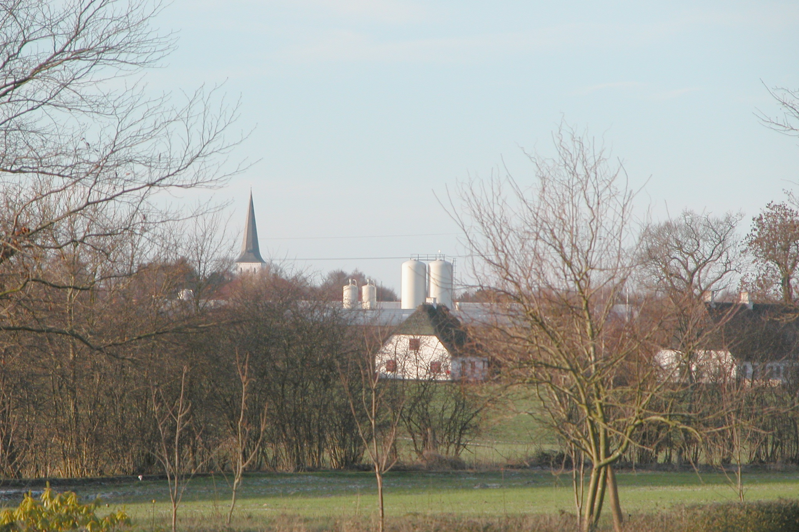 The village Øster Sottrup, Denmark